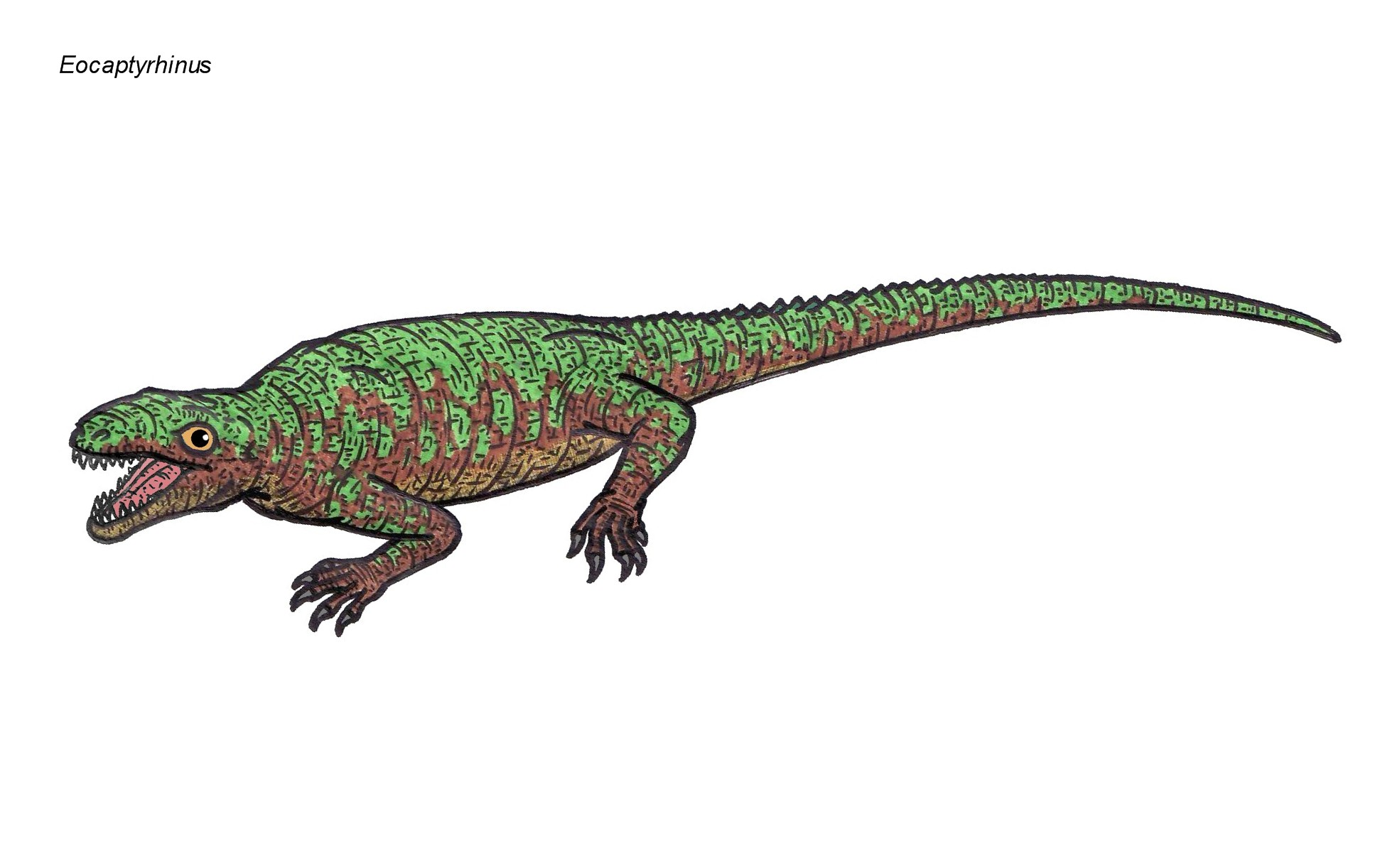 Reconstruction of the small extinct Anapsidan reptile Eocaptyrhinus. The illustration is based on a skeletal reconstruction found at Here, my illustration is made in a turned version.